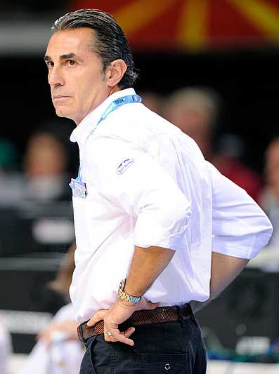 Head coach of Spalin national basketball team Sergio Scariolo during EuroBasket 2011